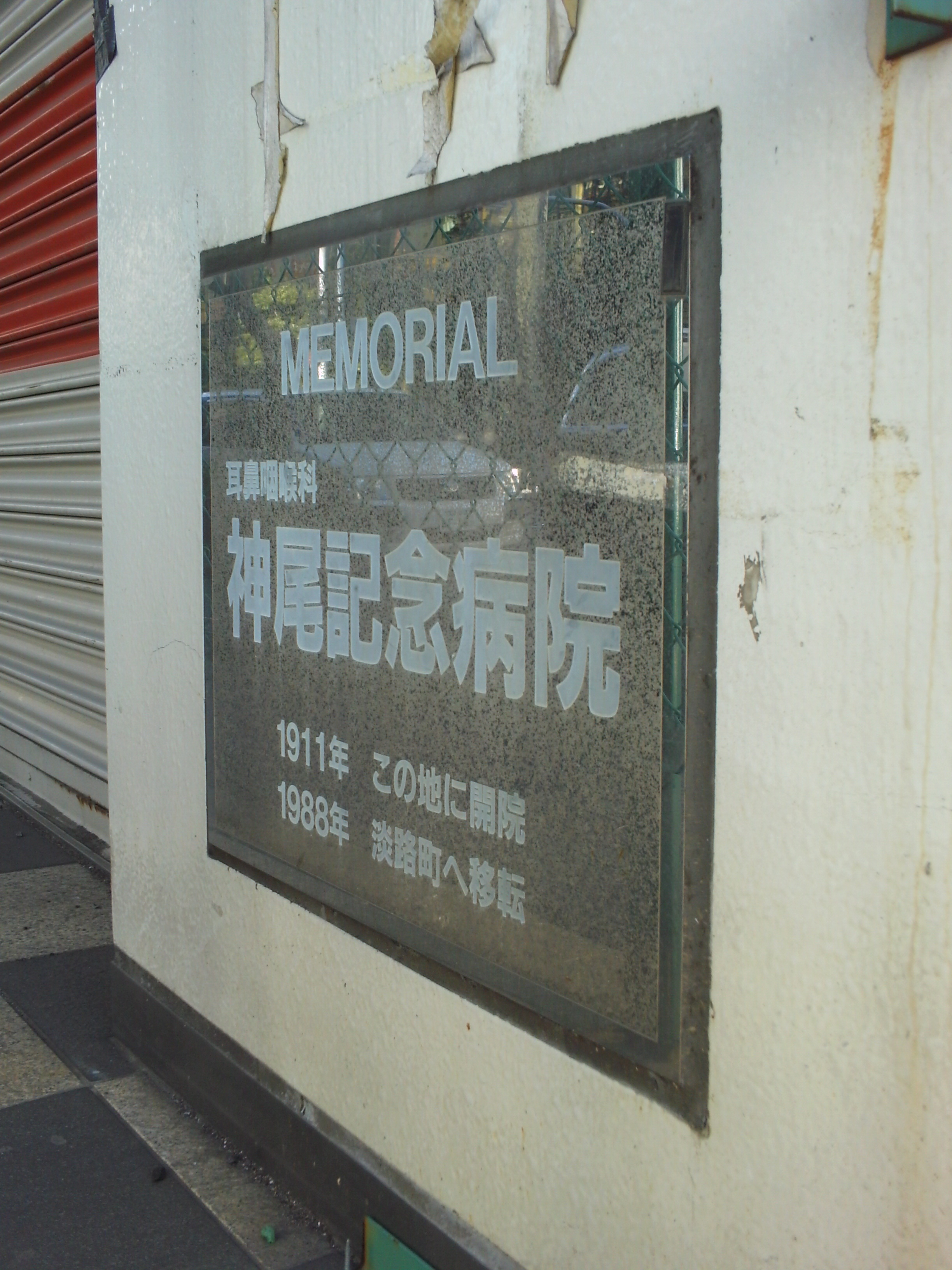 Memorial plate of Kamio hospital that moved. On the wall in the northwest of LaOX The Computer Shop in Akihabara.